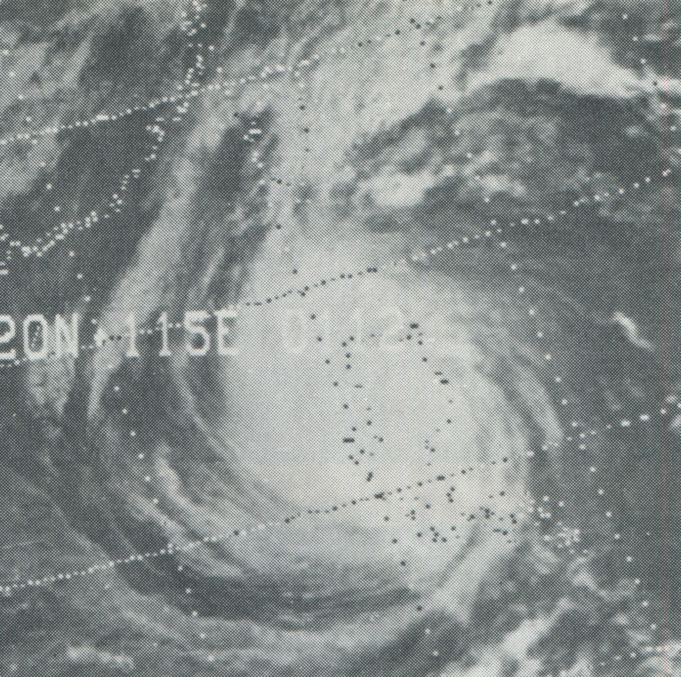 This weather satellite image of Typhoon Elaine was taken on October 28, 1974